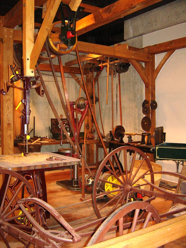 Belt and pulley wood shop similar to what Amish currently use. Exhibit at Ohio Historical Society. 05-28-07 Photo:Mike Sharp.